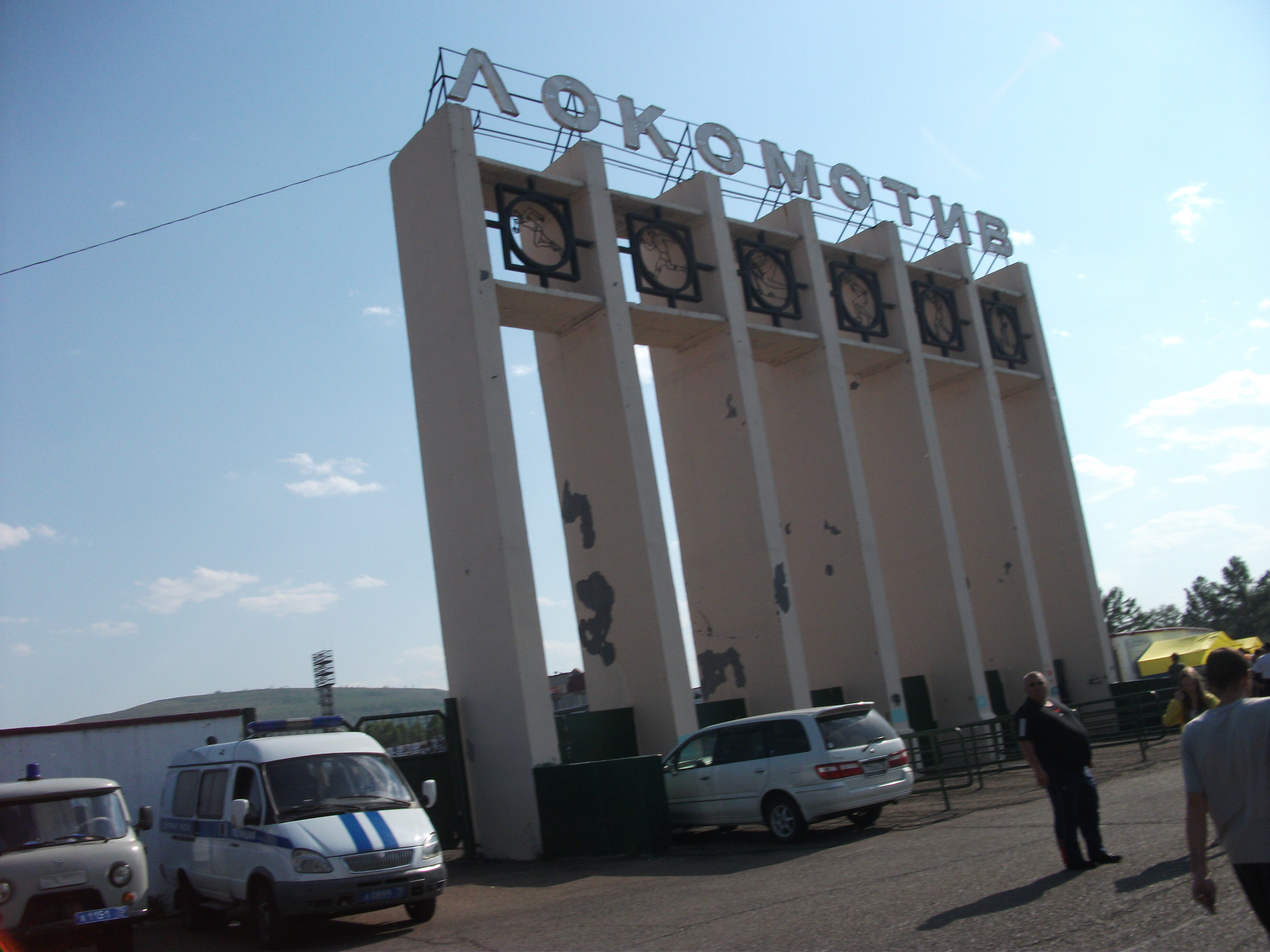 At the entrance to the stadium «Locomotive» (Chita)